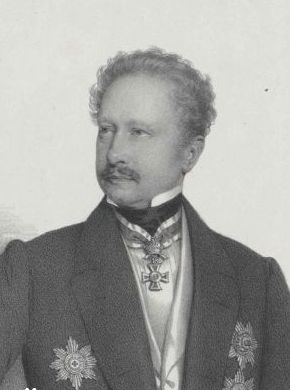 Gubernator Moraw